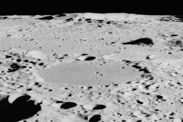 Oblique view of Gernsback crater (below center), on the moon, facing south